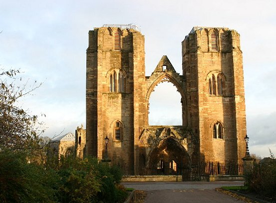 Elgin cathedral.